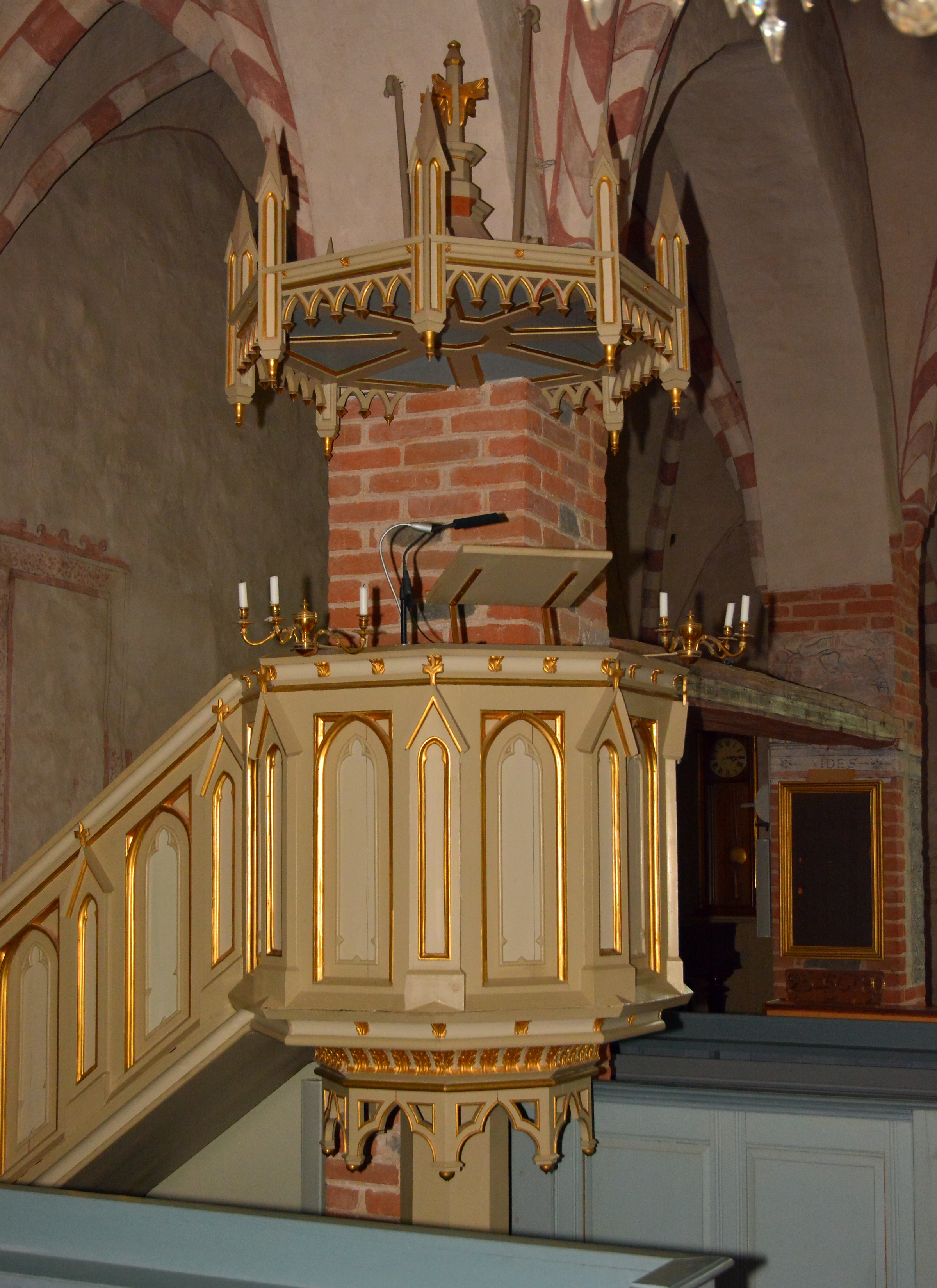 Nagu church in Nagu, Finland